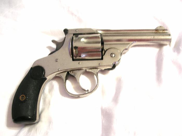 H&R Top Break Pat 1887 revolver. Image is released into the Public Domain for any and all uses. Image is released into the Public Domain for any and all uses.